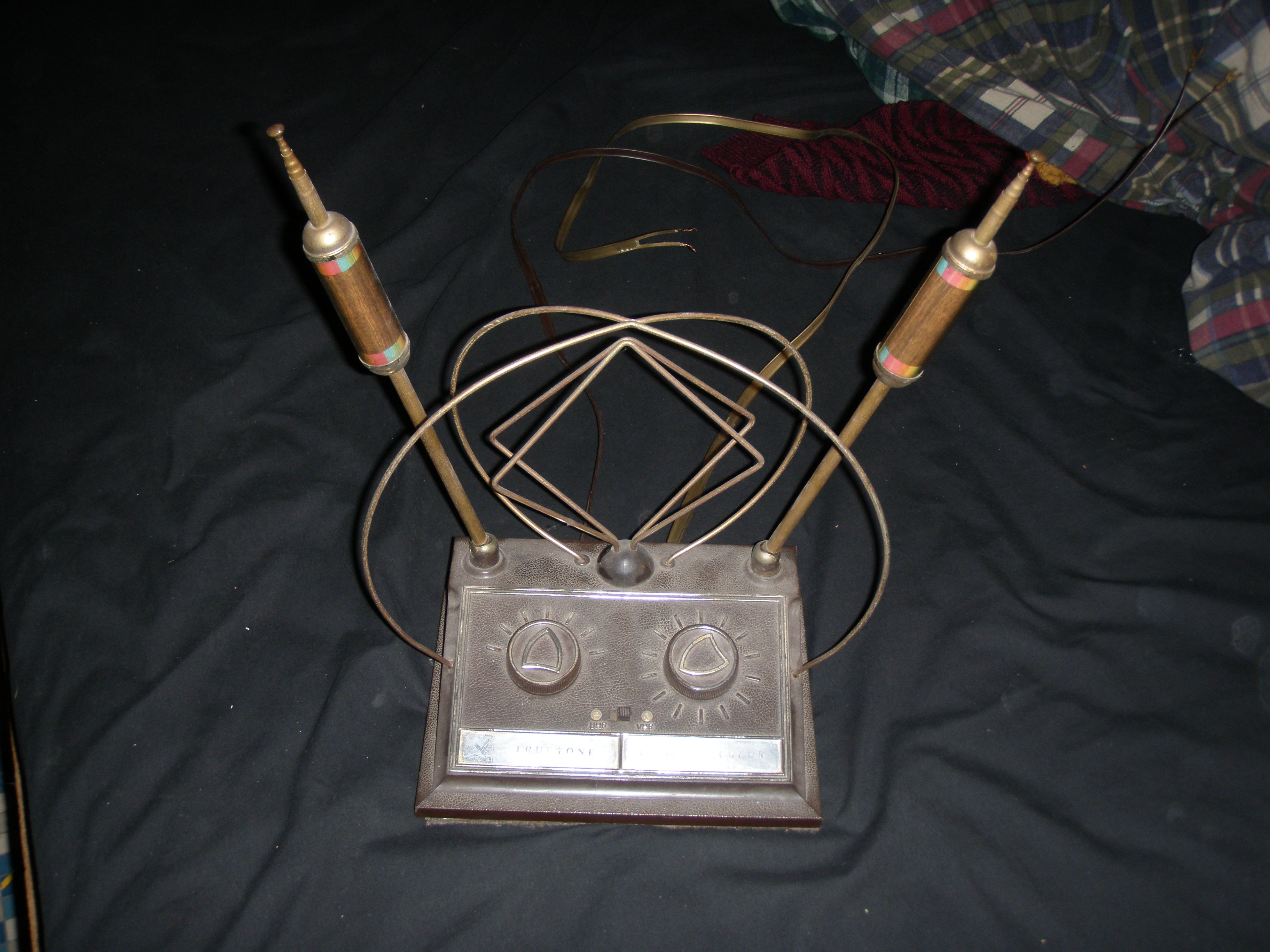 Old fashioned "rabbit ears" indoor television antenna. The telescoping VHF dipole "ears", retracted, are visible at each side. The loops of wire in center are a UHF loop antenna for the higher UHF channels